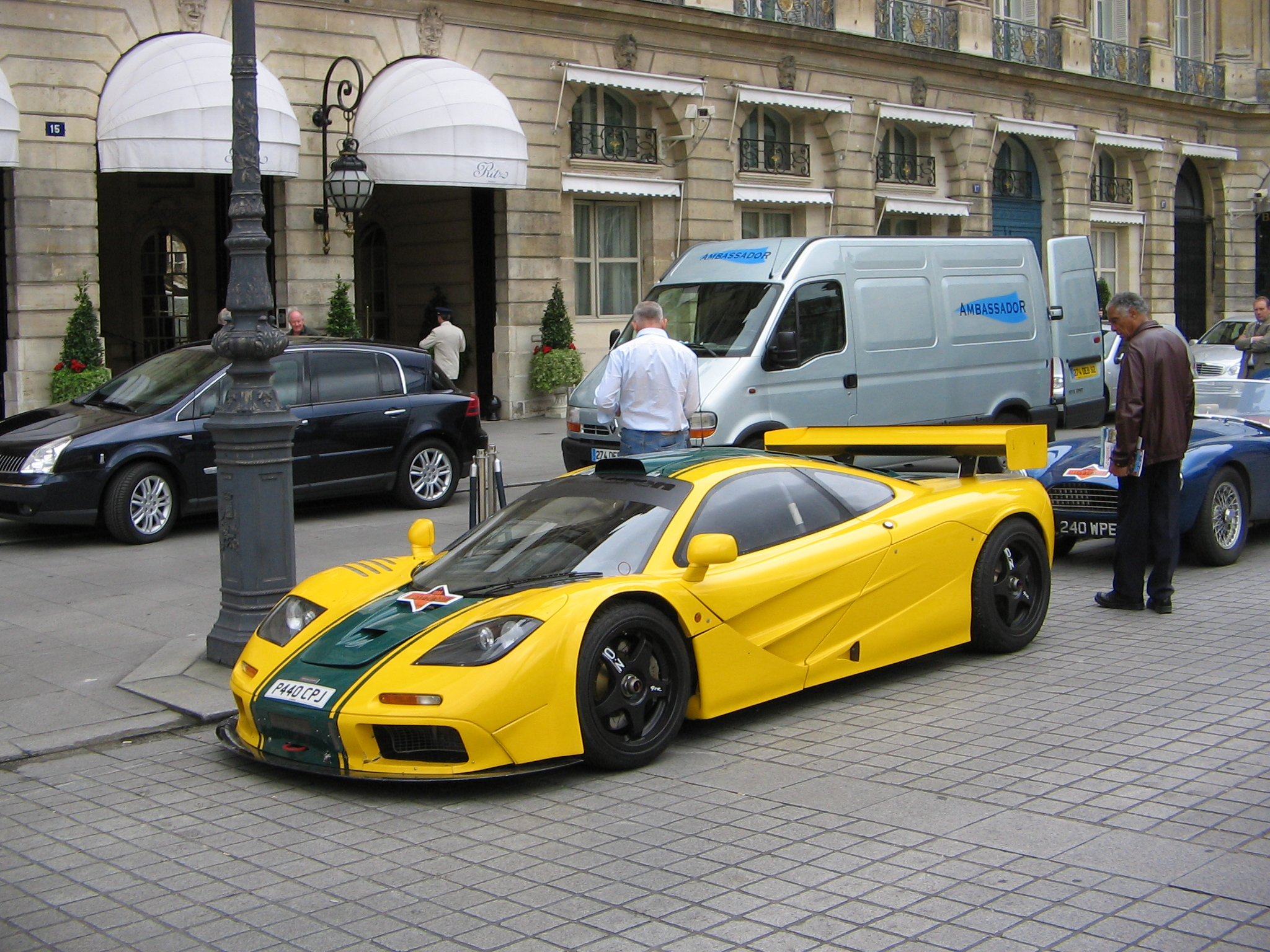 McLaren F1 GTR 95 in front of the Ritz in Paris. #06R 1995, Reg: P440 CPJ. David Clark, former Sales Director at McLaren Cars.